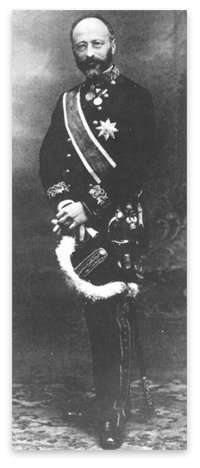 Photo of Eugen von Bohm-Bawerk - minister of finance in Austria-Hungarian Empire. This person died at 1914